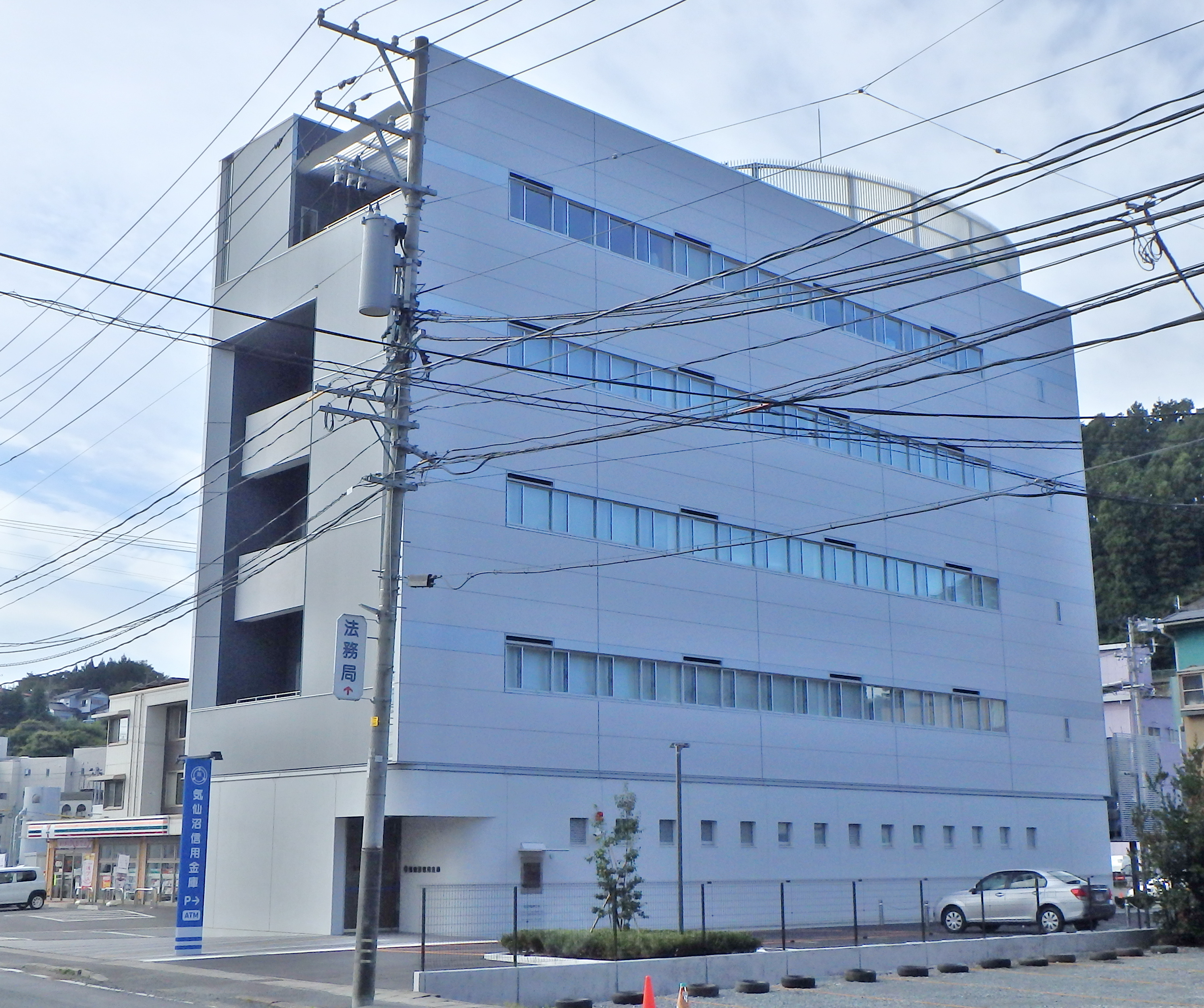 Kesennuma Shinkin Bank,Miyagi prefecture,Japan